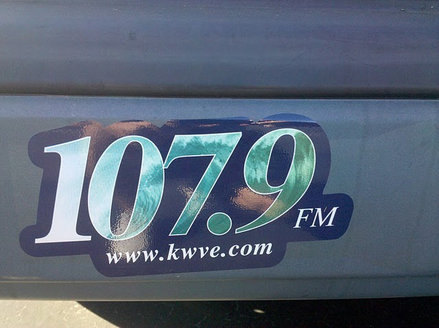 Current version of the station's official bumper sticker